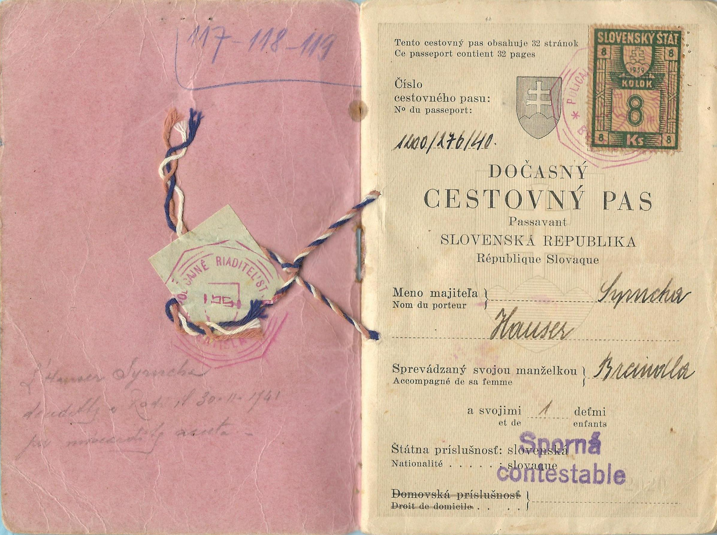 Temporary Slovakian passport issued in 1940 to a Jewish refugee family, who used it to escape to Italy.